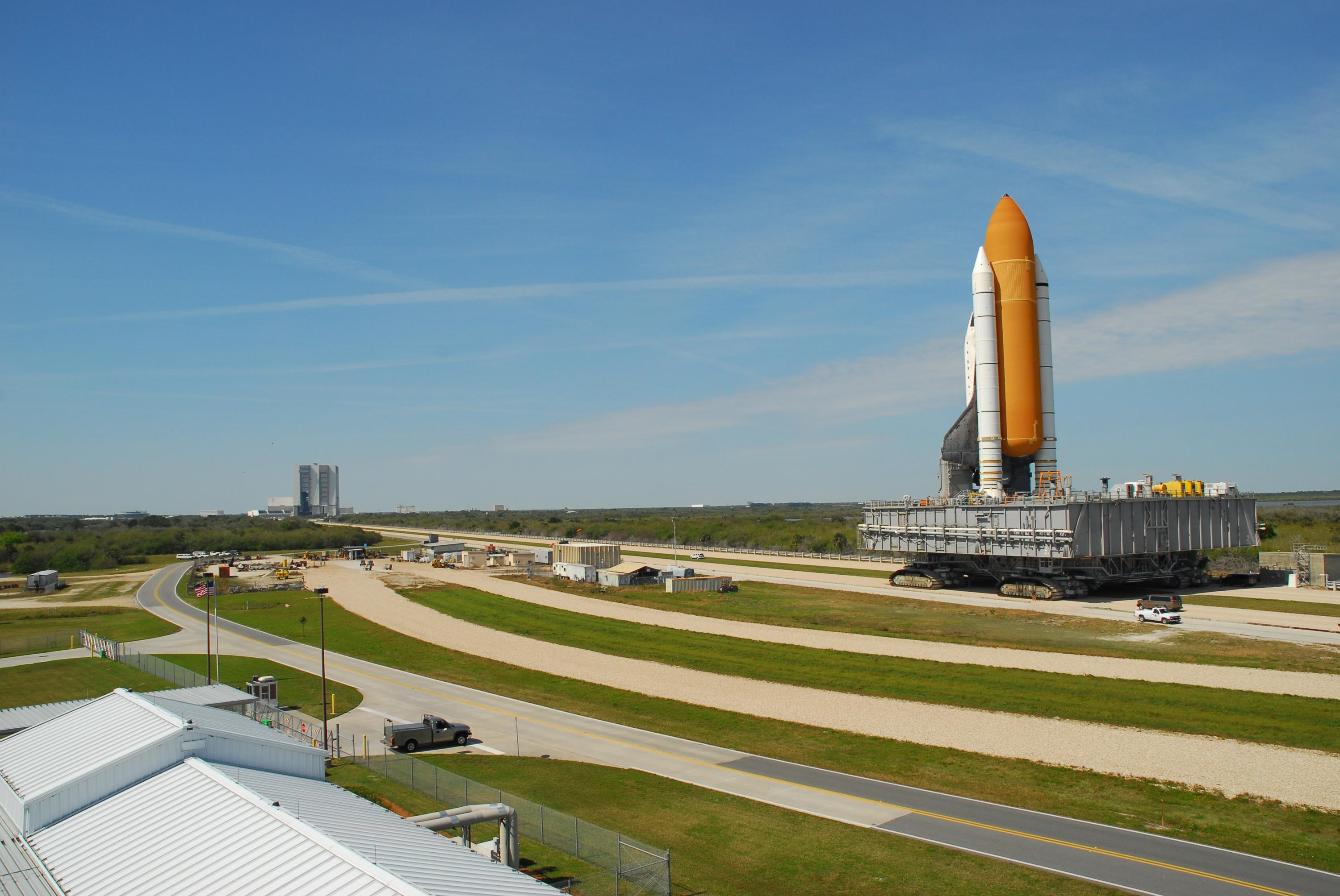 Under blue sky streaked with contrails, Shuttle Atlantis, atop the mobile launcher platform, is being rolled back to the Vehicle Assembly Building (at left in the background) from Launch Pad 39A, for mission STS-117. In the Vehicle Assembly Building, the shuttle will be examined for hail damage.